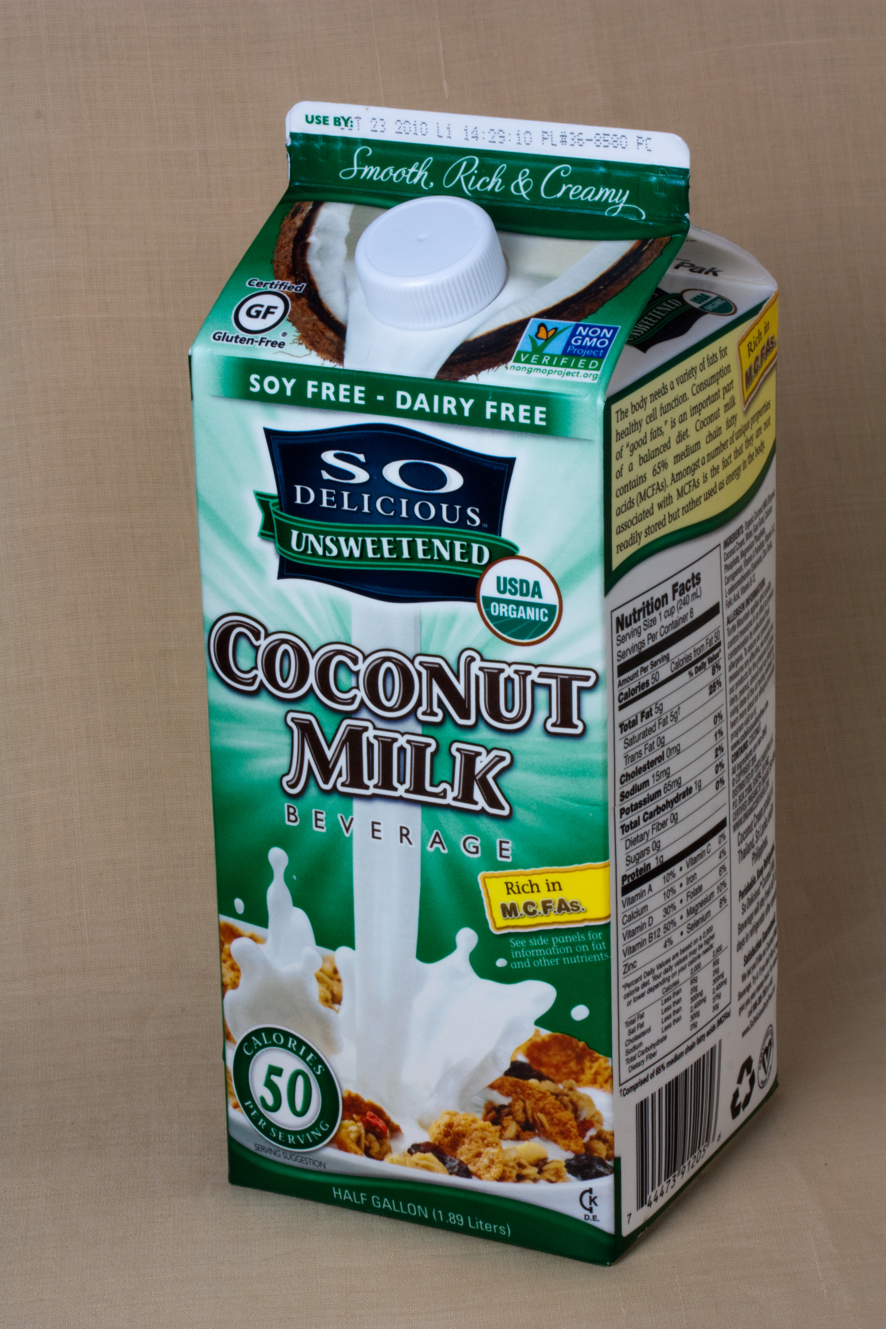 Coconut Non-Dairy Milk